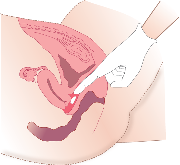 Administering medication vaginally without an applicator / intravaginal administration